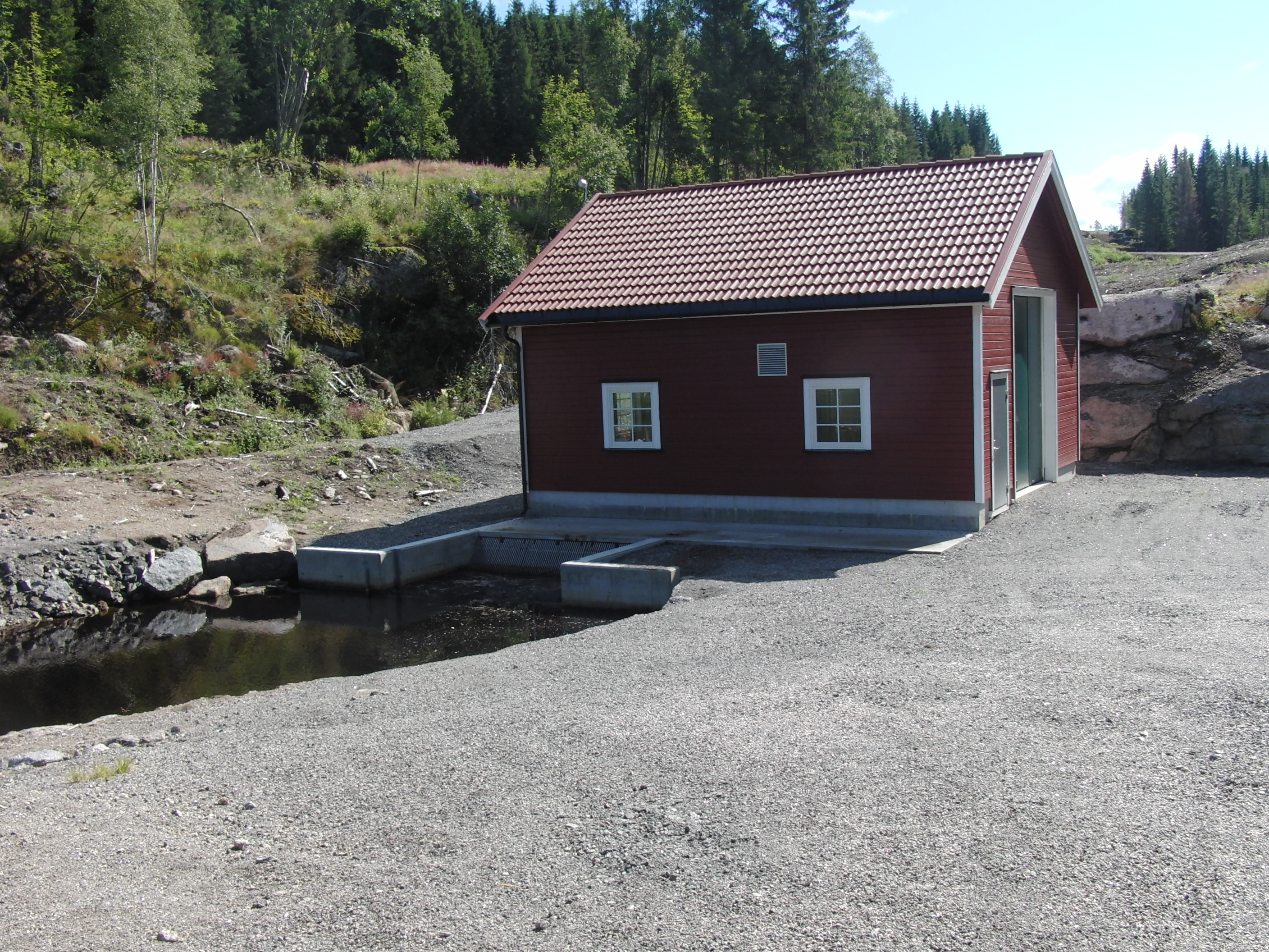 Bestul pumpestasjon